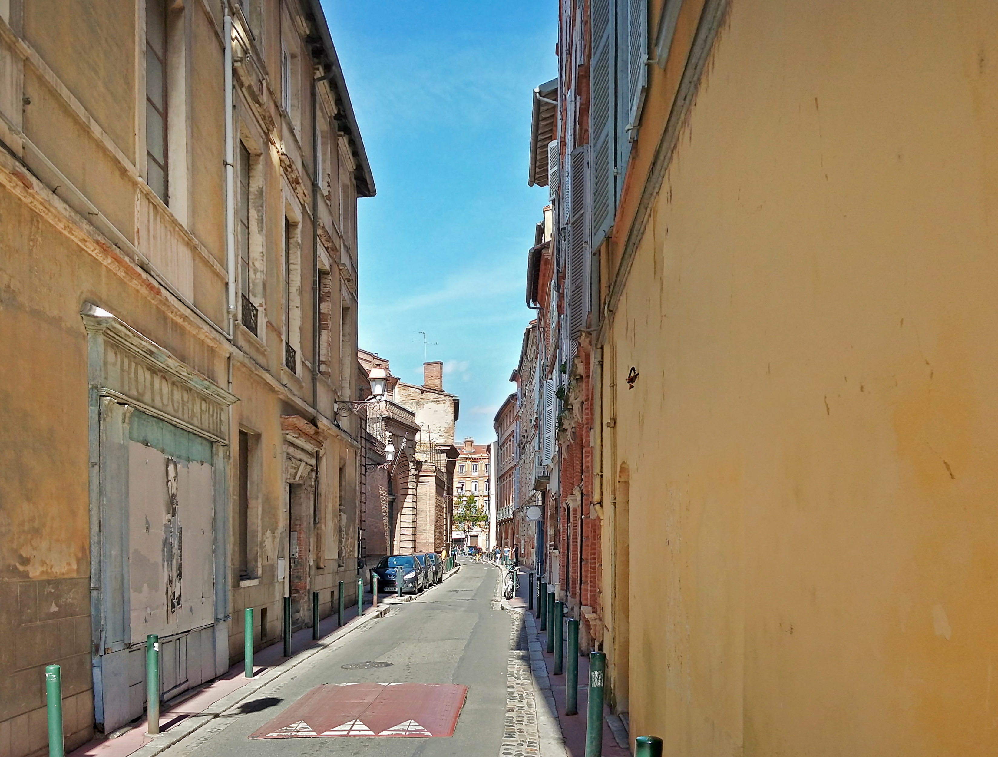 Rue Mage, in Toulouse, view from place Perchepinte